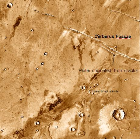 Athabasca Valles. Location is 9.6 degrees north latitude and 155.8 degrees east longitude. Picture taken with Mars Odyssey's THEMIS. Photo credit NASA/JPL/ASU.